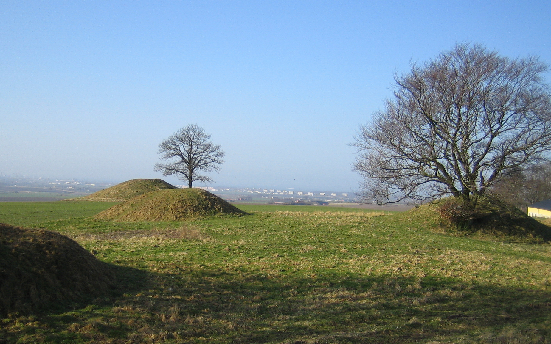 The burial mounds Rönneberga backar (RAÄ No Asmundtorp 3:2-5) in Asmundtorp parish, Rönneberg hundred, Landskrona municipality, Skåne, Sweden.